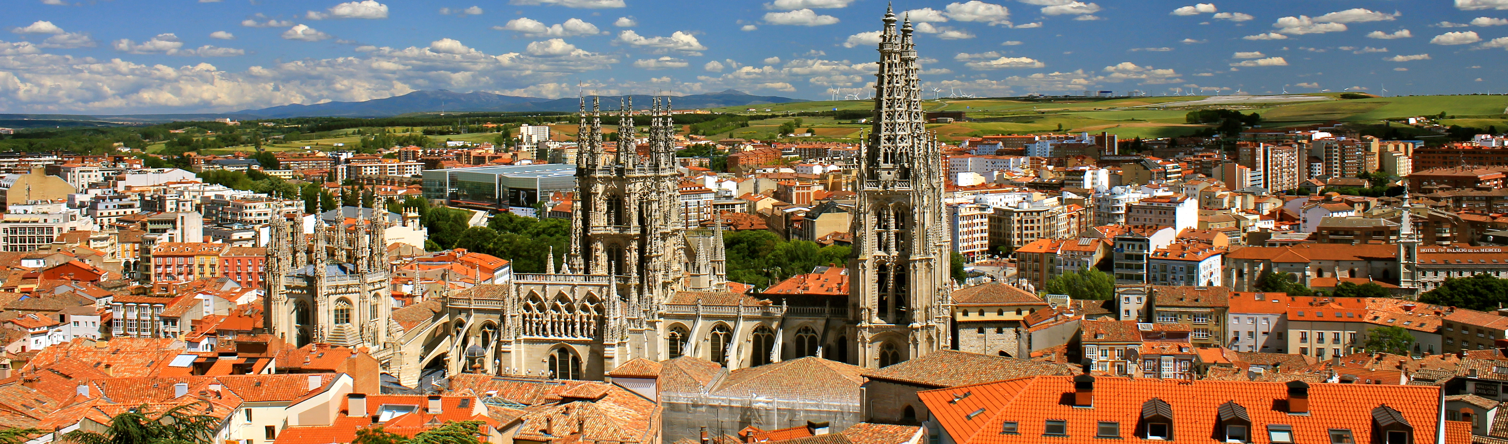 View of Burgos from the castle